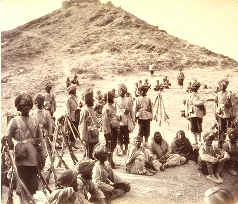 Photo of 45th Rattray's Sikhs with prisoners from the second Second Anglo-Afghan WarFrom Source: The three Afghan prisoners captured in the advance through the Khurd Khyber are sitting in the centre of the photograph, surrounded by Sikh guards. The 45th Sikh Regiment was raised in 1856 by Captain Thomas Rattray, and was popularly known as Rattray’s Sikhs. It had earlier earned glory with its courage and loyalty to the British at the relief of Lucknow during the Indian Uprising of 1857. The Regiment served in the Fourth Infantry Brigade, part of the Peshawar Valley Field Force, during the Second Afghan War. The prisoners were lucky to have survived because in the harsh conditions and terrain of the Afghan Wars no quarter was given and prisoners taken, on both sides.